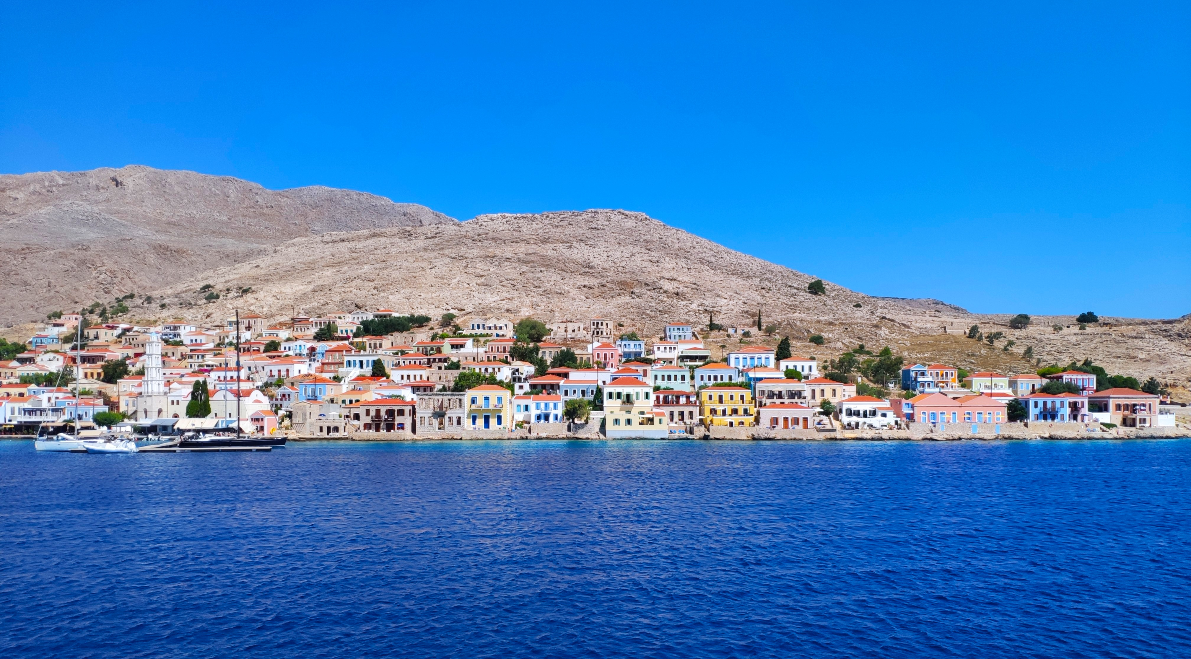 Emporio chirch and houses in Halki island also known as Chalki